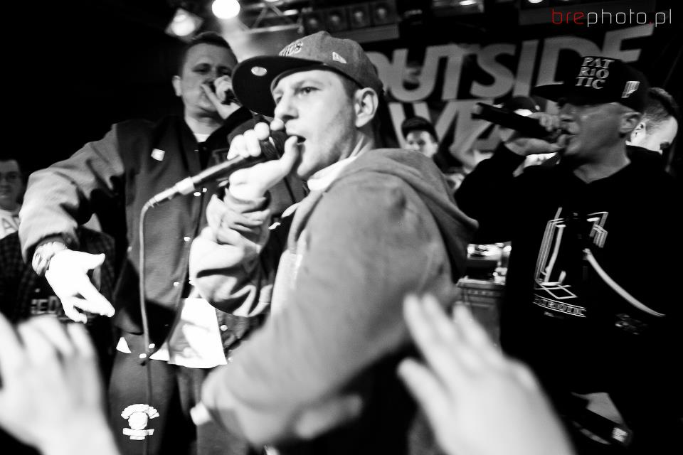 Polish rappers (from left) Borixon, Pyskaty and Kajman